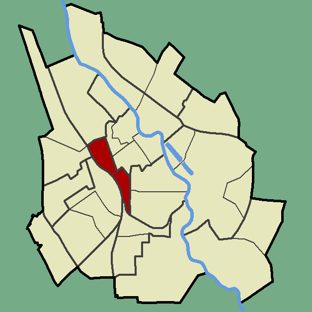 Locator map of Vaksali, Tartu, Estonia.